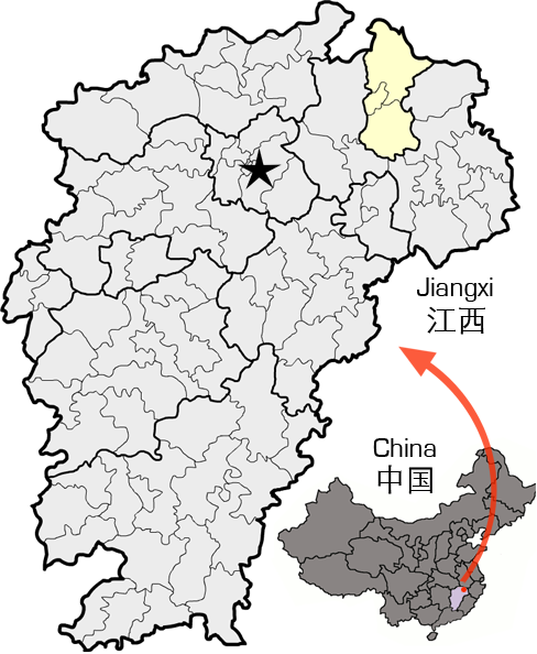 Map showing location of Jingdezhen in Jiangxi Province China